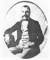 Kozanek